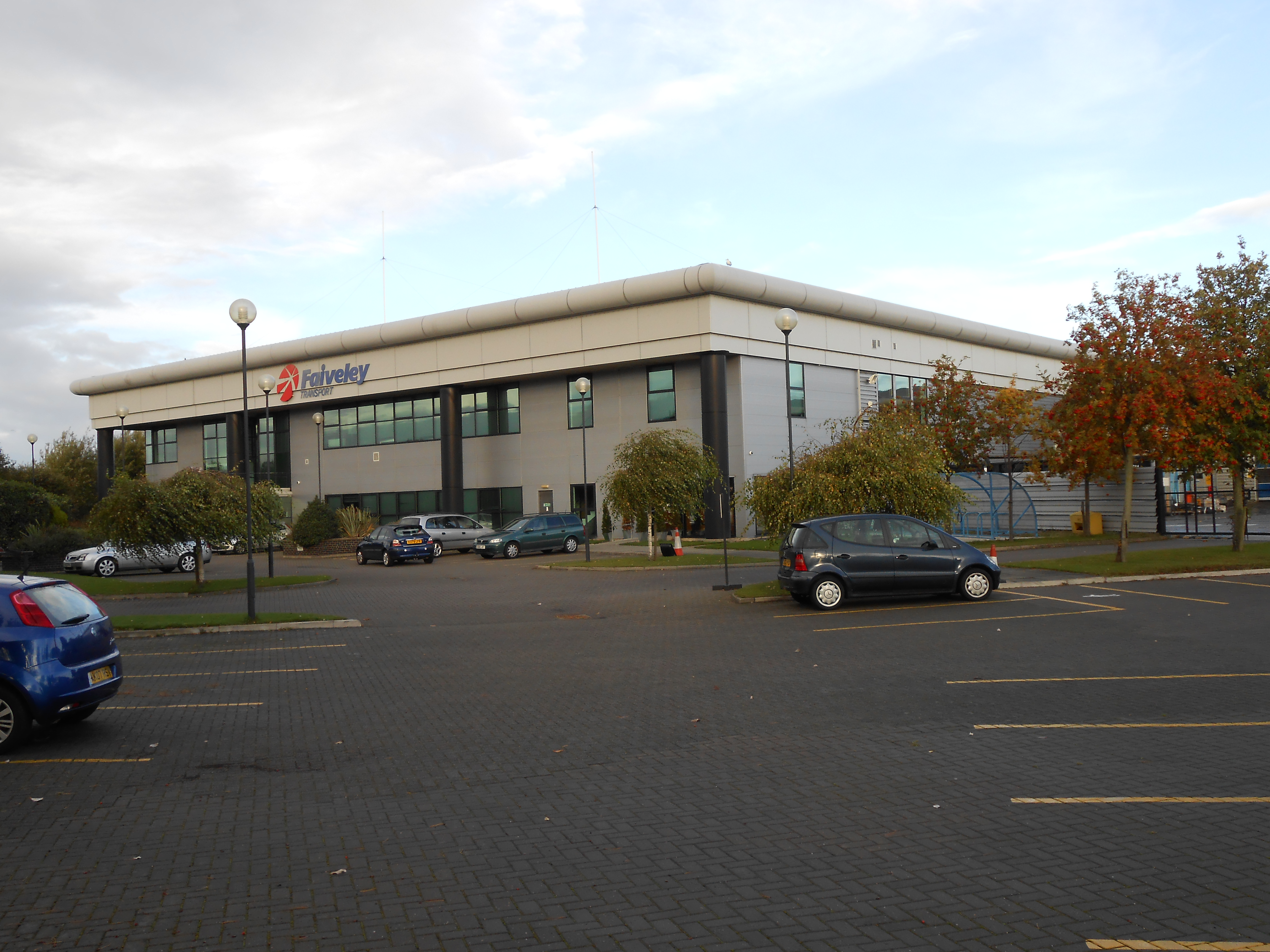 Faiveley Transport, Birkenhead, Merseyside, England.